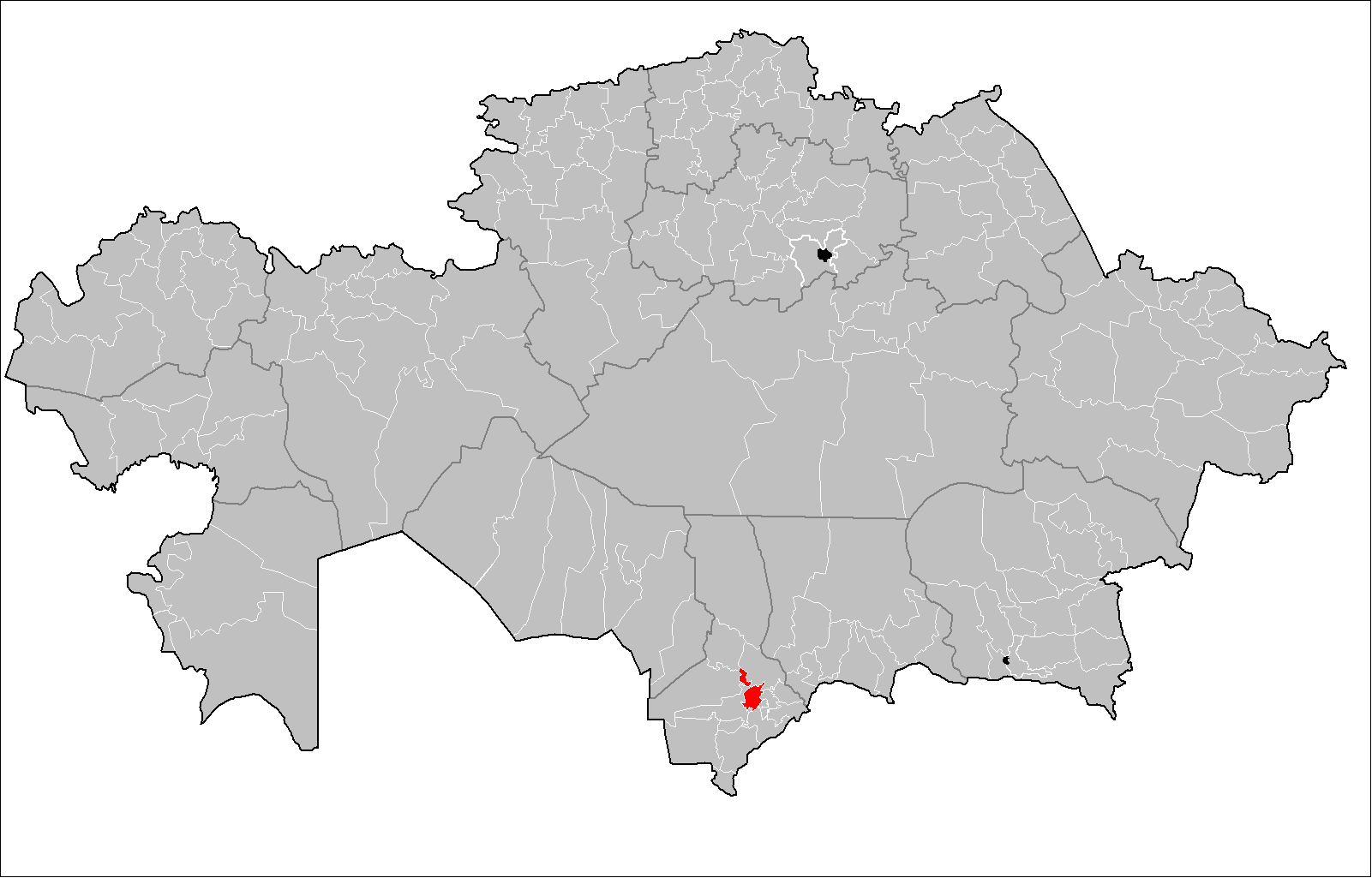 Map of the rayons of Kazakhstan. Created by Rarelibra 16:49, 3 August 2007 (UTC) for public domain use, using MapInfo Professional v8.5 and various mapping resources.